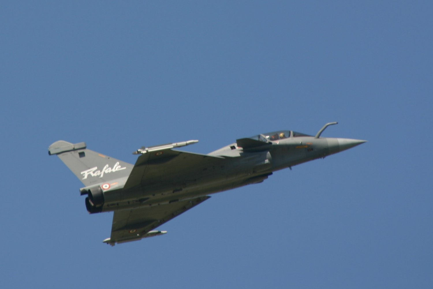 A Dassault Rafale in flight